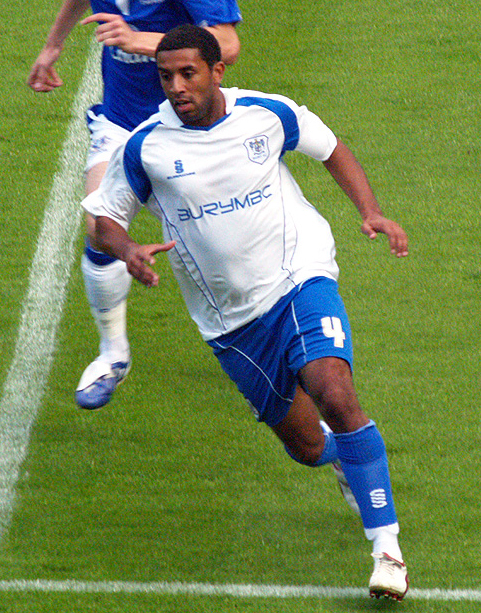 Bury FC trialist Simon Johnson during the Bury vs. Everton friendly game at Gigg Lane, home of Bury Football Club. Friday 10th July 2009